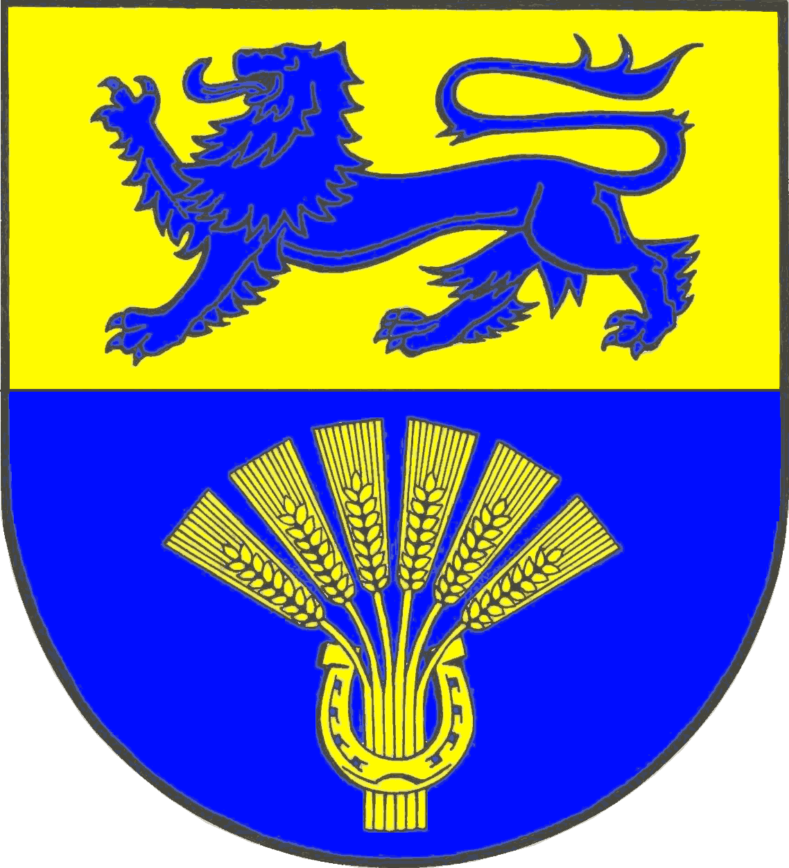 Former coat of arms of the German municipality Handewitt in Schleswig-Holstein, Germany